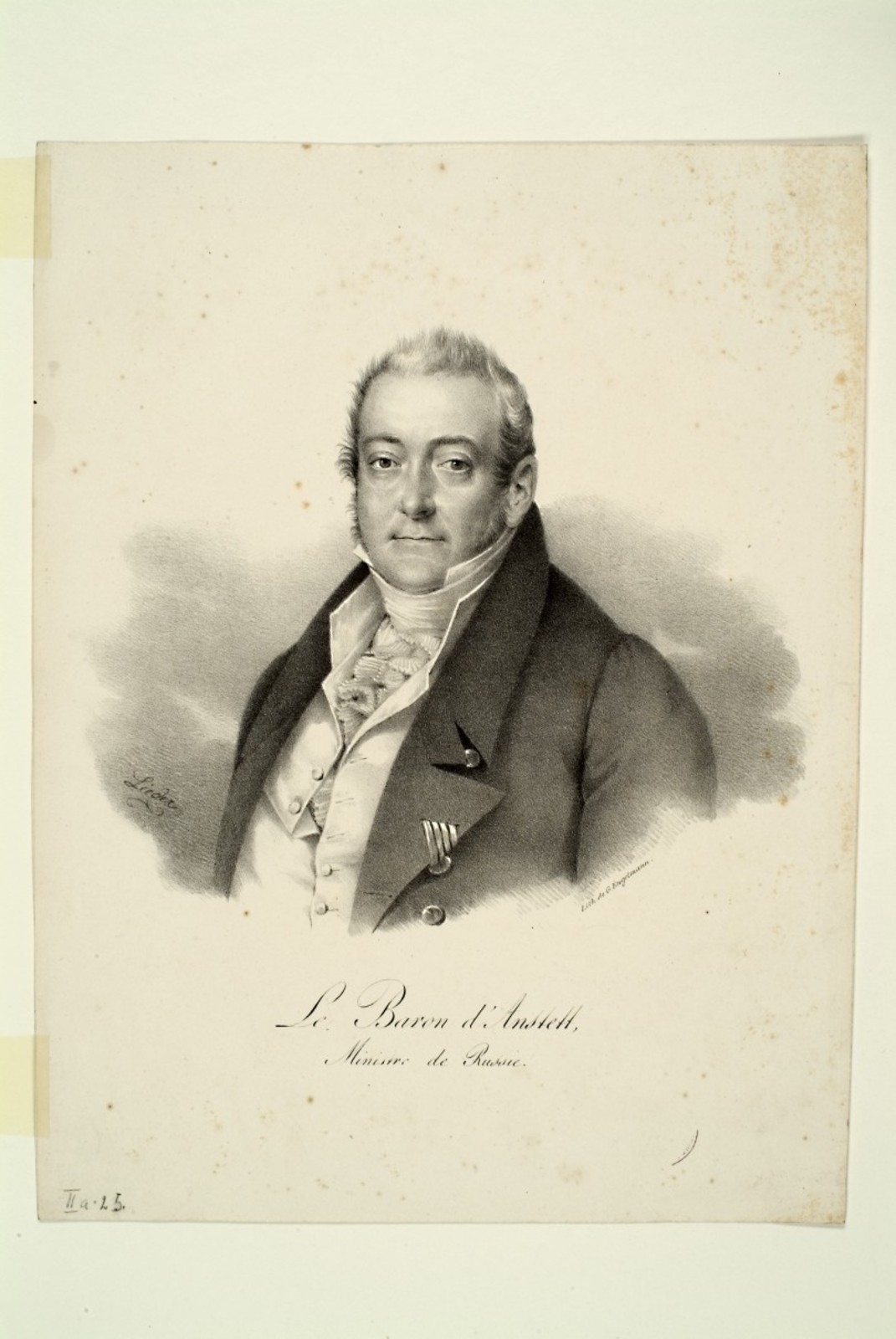 Ivan Osipovich Anstett (Johann Anstett)